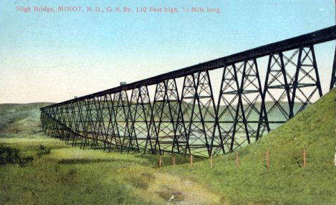 High Bridge, Minot, N.D., G.N.Ry. 110 Feet High, 1/2 Mile Long